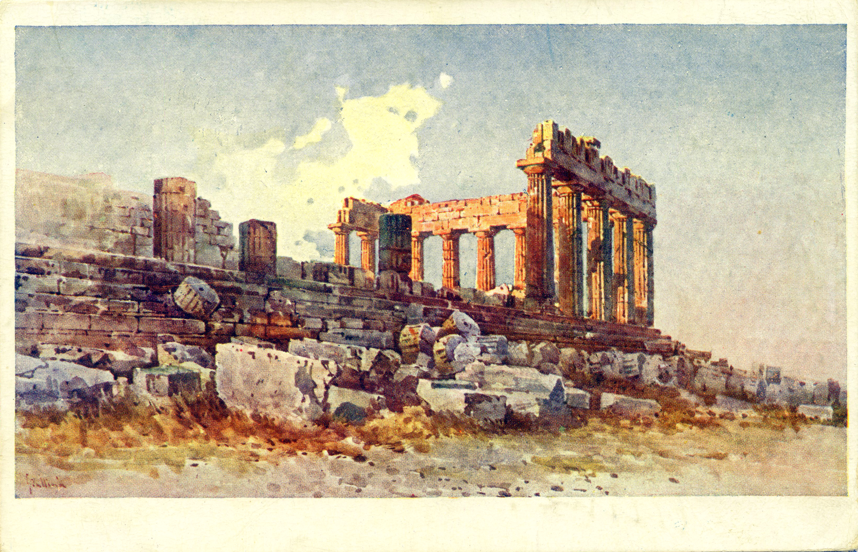 The Parthenon of Athens. Postcard published by Aspiotis.